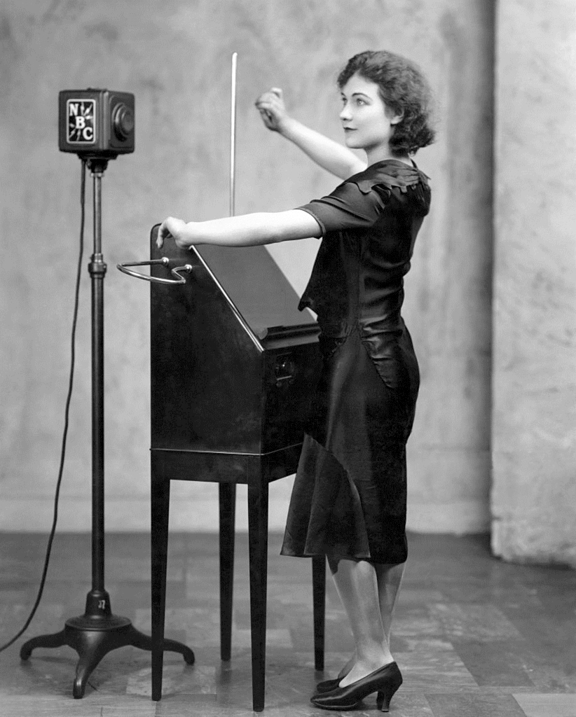 Photograph of Alexandra Stepanoff playing the theremin on NBC Radio Original caption on source:“Recognize this instrument ? Well, hardly, for it's the new Theremin Ether-wave Music box. And of course you have not failed to note the lovely young lady -- she is MME ALEXANDRA STEPANOFF, musician of marked ability, all of which is required to coax exquisite melody from this remarkable instrument.” More information Albert Glinsky (2000) Theremin: Ether Music and Espionage, University of Illinois Press, p. 86 ISBN: 978-0-252-02582-2. "​In July, writers for two New York Communist organs, A. B. Magil, of the Daily Worker, and William Abrams, of the Daily Freiheit, dropped in on the inventor for a feature story. “Prof. Leon Theremin led the way into the modestly furnished bedroom of his suite at the Plaza Hotel,” Magil wrote. “... a pupil of his was practing on the new ether-music instrument.” The pupil was Alexandra Stepanoff, Theremin's first student on U.S. soil -- a young, recent immigrant to America. Slender and graceful, with delicate features, dark, smartly cropped hair, and an assured smile, she remainiscent of the very young Galbo. In Russia she had been a concert singer and now, under the professor's spell, she fluently transferred her vocal technique to the ether instrument. Alexandra had come to the inventor's attention through the network of New York's Russian community with which he had surrounded himself, and along with Goldberg she became one of the first discilples of the instrument. "